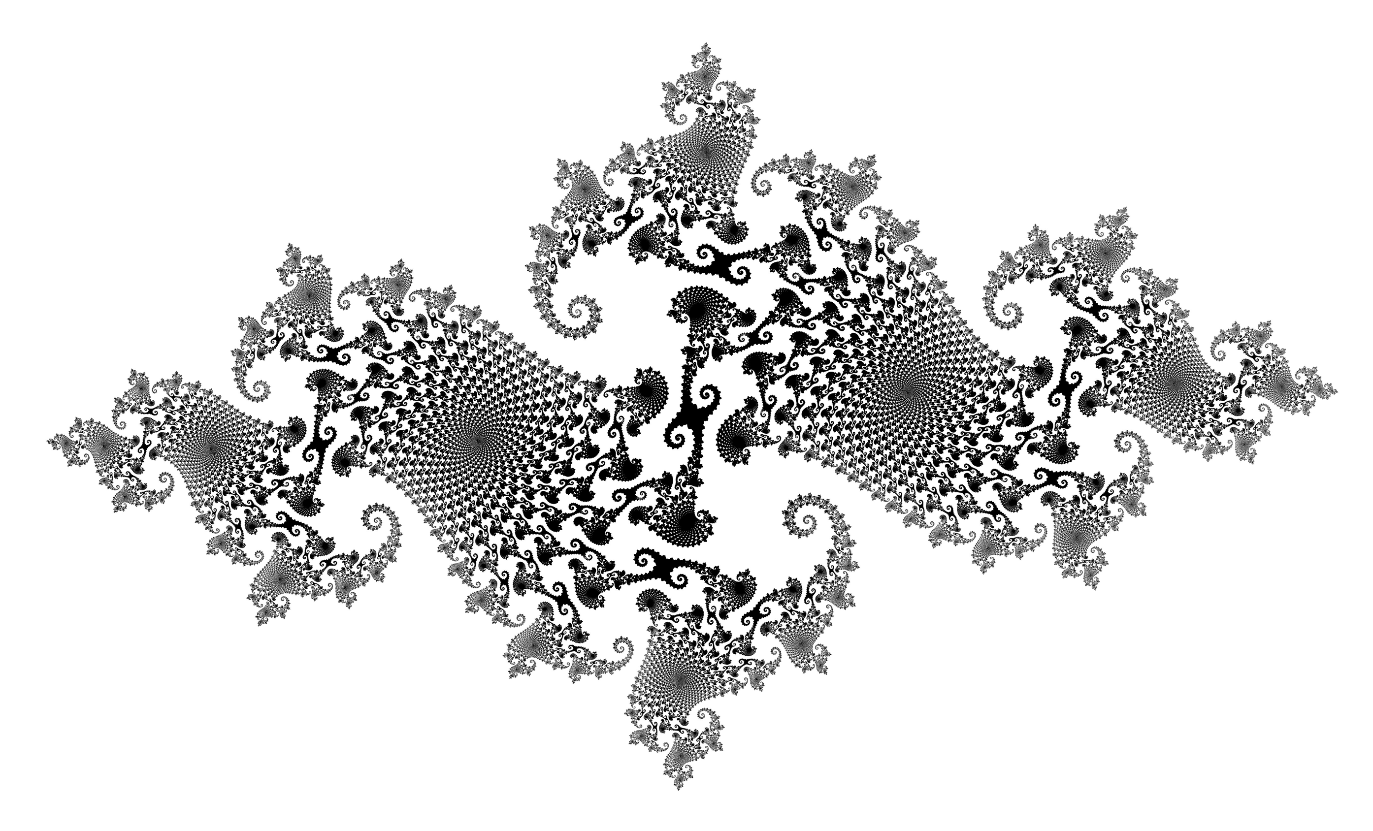 Julia set for c close to − 0.74 − 0.11 i {\displaystyle -0.74-0.11i} . Its Hausdorff dimension is close to 2.